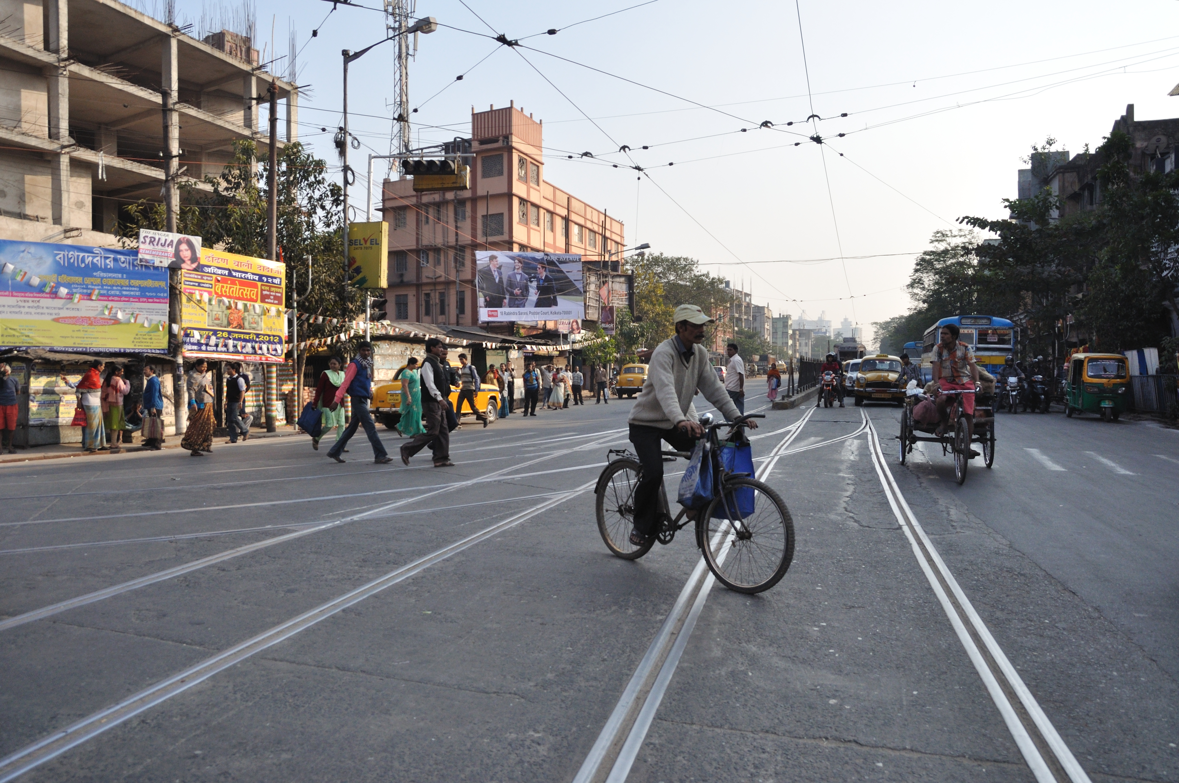 Photographed at Kolkata.